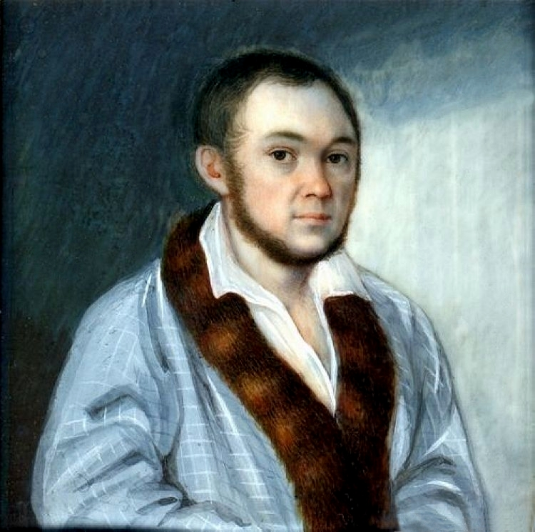 Pyotr Pavlovich Yershov (1815 – 1869) – a Russian poet, novelist and playwright